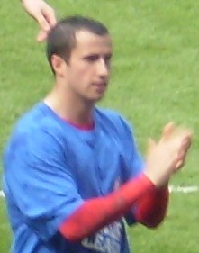 Keith Fahey acknowledges the supporters after Birmingham City F.C. won promotion from the Football League Championship to the Premier League on the last day of the 2008–09 season